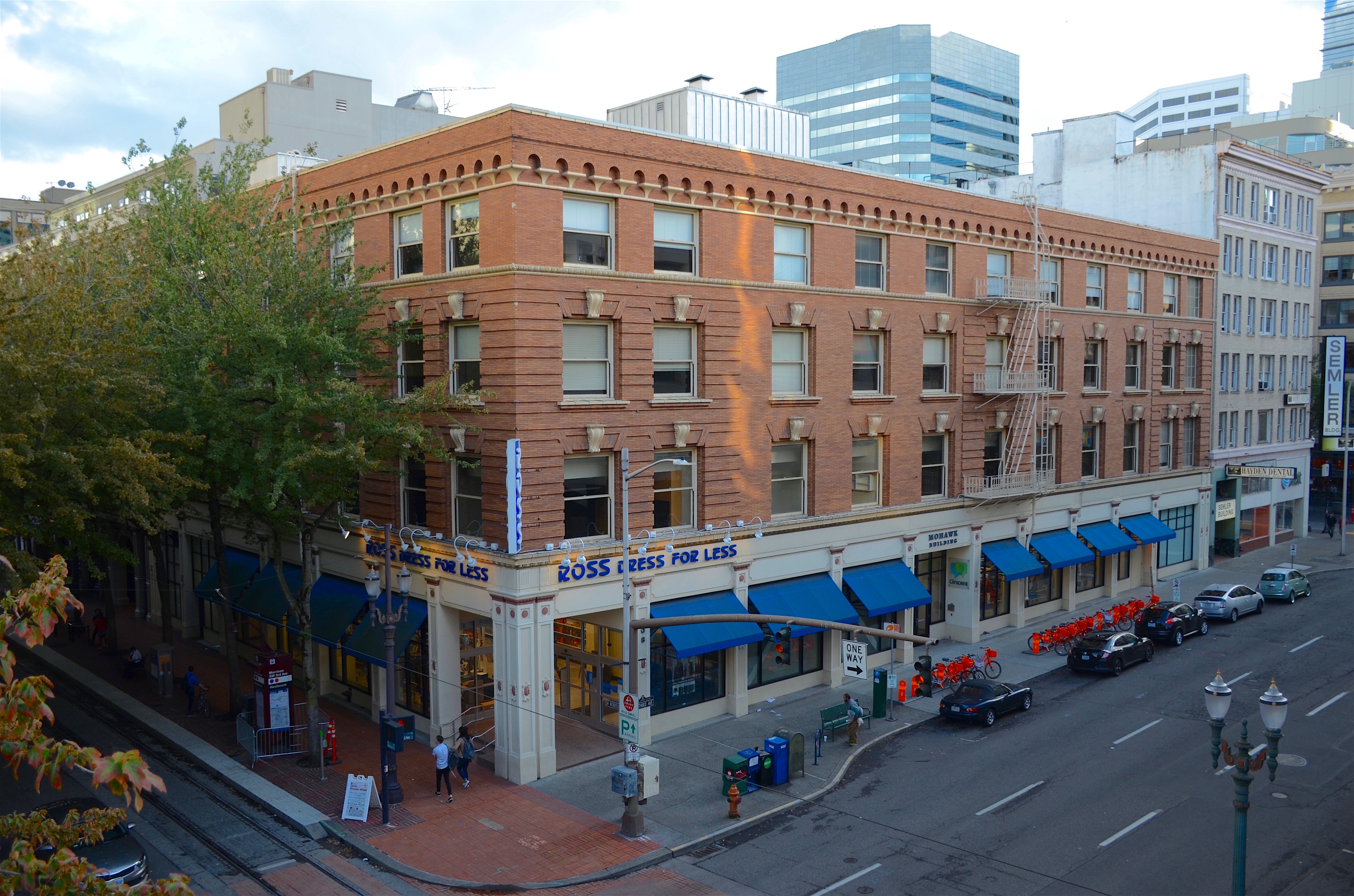 The Mohawk Building, at SW 3rd & Yamhill in downtown Portland, Oregon, viewed from a parking garage. The building is listed on the U.S. National Register of Historic Places.